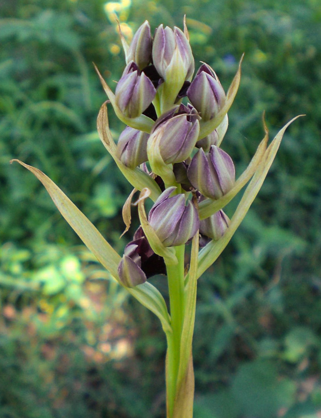 Orthochilus ruwenzoriensis, formerly known as Pteroglossaspis ruwenzoriensis and Eulophia ruwenzoriensis. Original file info: "Floreció en Córdoba (Villa Belgrano, Capital) a principios de enero de 2009. It bloomed in Cordoba (Villa Belgrano, Capital) by the beginning of January 2009."